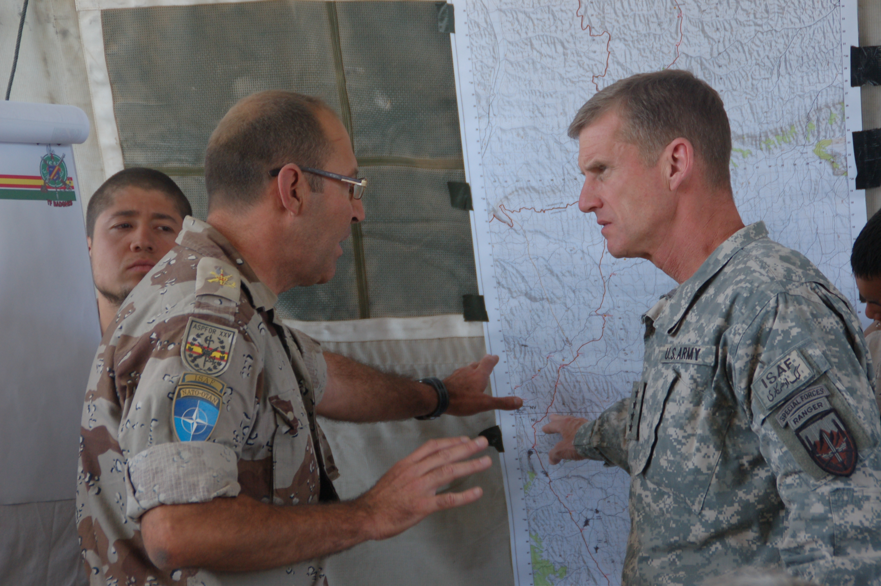 LTC Ballenilla explains the operations performed by the Spanish Legion on Lithium Route to General McChrystal on his visit to Spanish troops in the FOB "Bernardo de Galvez" in the village of Sang Atesh (Badghis Province)